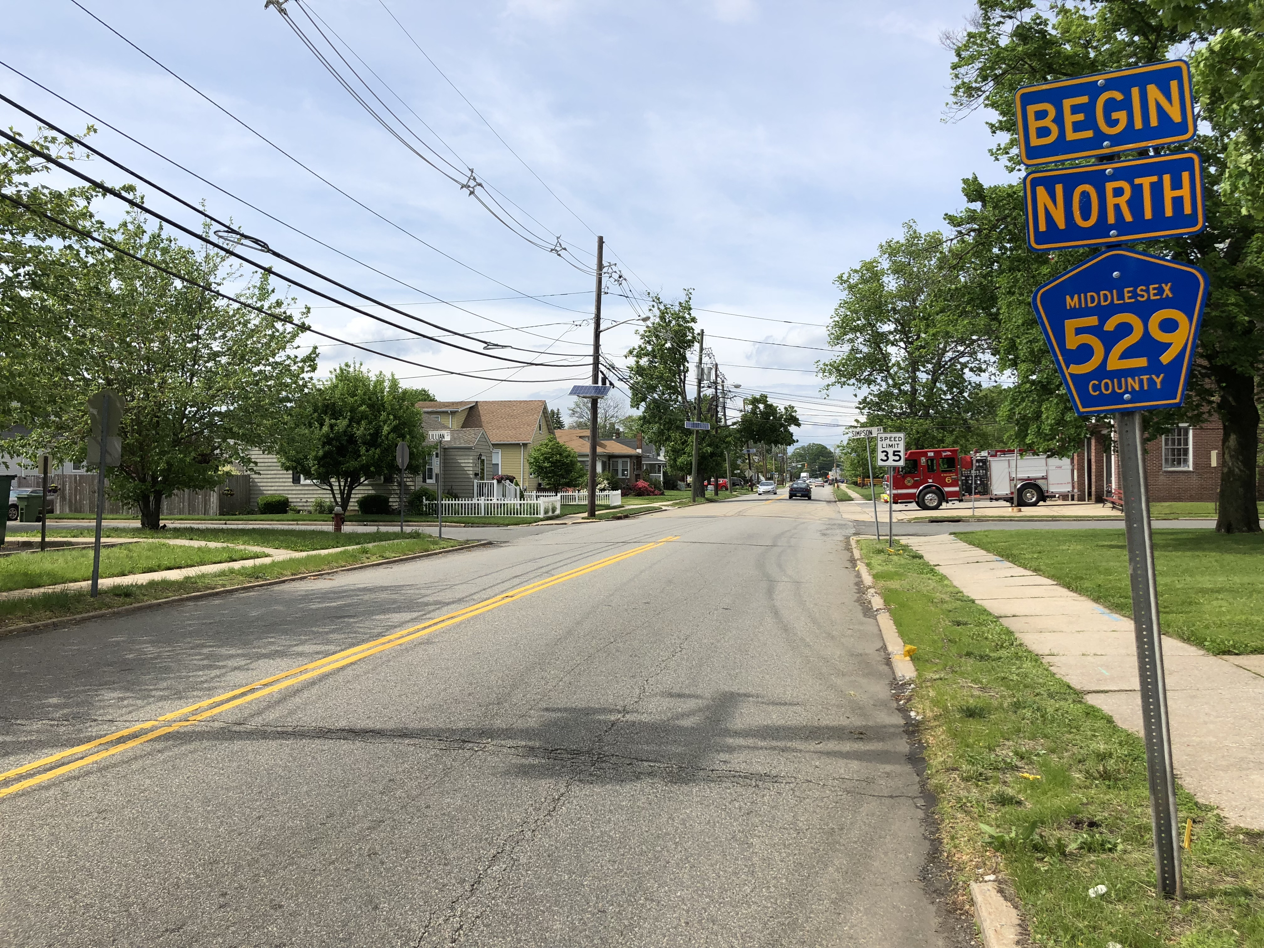 View north along Middlesex County Route 529 (Plainfield Avenue) just north of Middlesex County Route 514 (Woodbridge Avenue) in Edison Township, Middlesex County, New Jersey